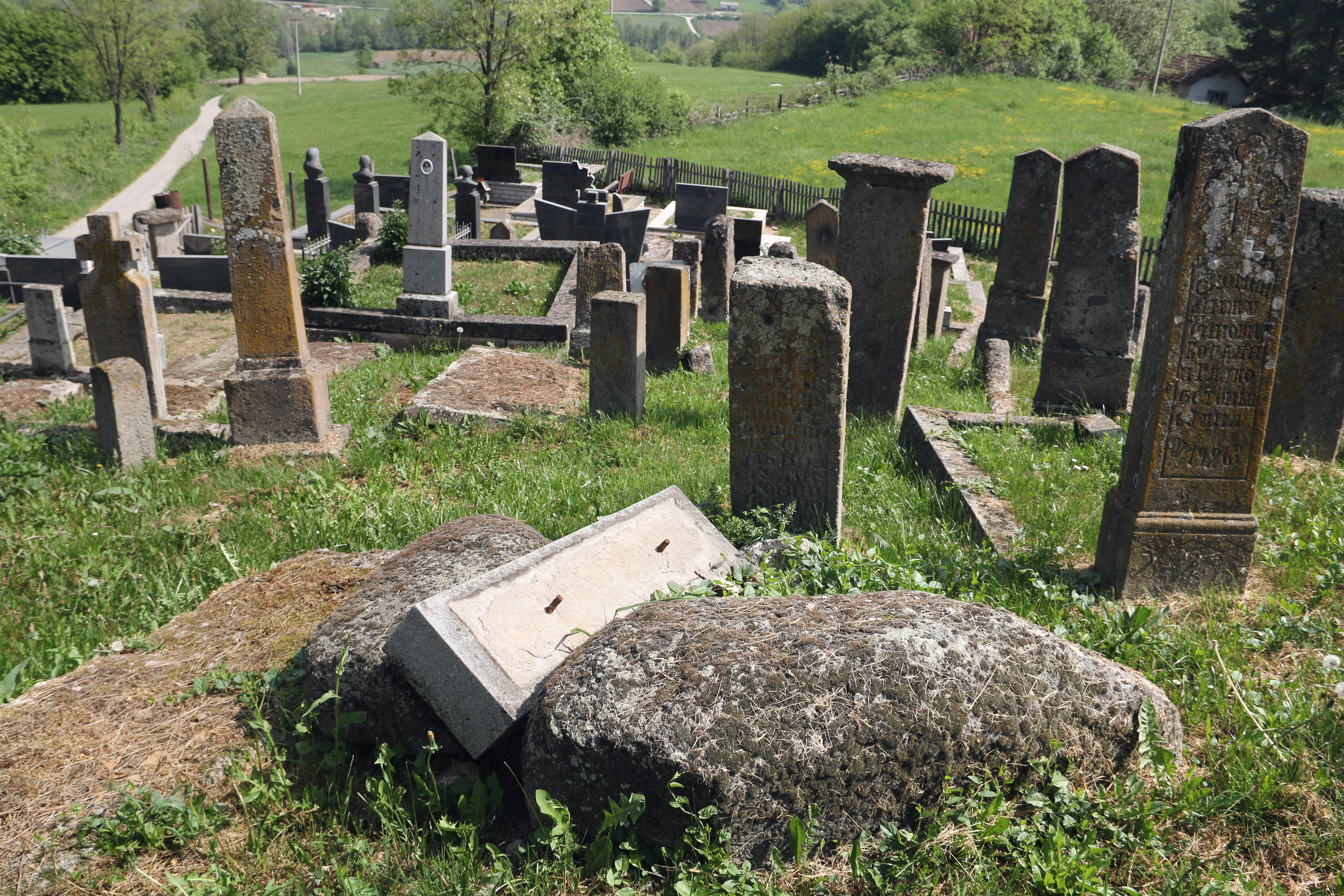 Old gravestones at the cemetery in the village of Locevci (the municipality of Gornji Milanovac), Serbia.